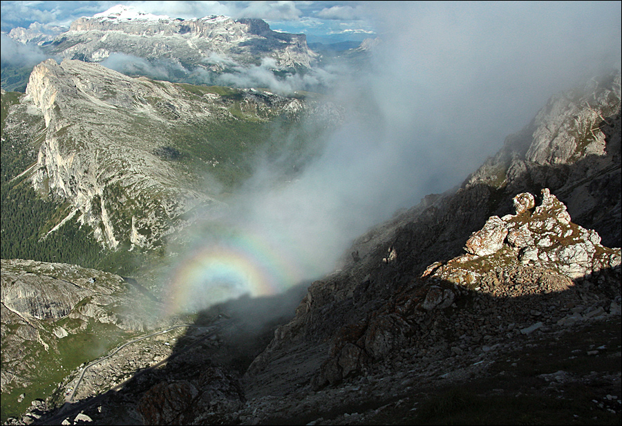 The 'Glory' photographed from Mt. Lagazuoi in the Dolomites, Italy, August 2010 (photo: Marco Langbroek)